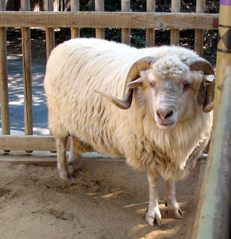 A Navajo-Churro ram (the breed is horned in both genders, but not the testicles)